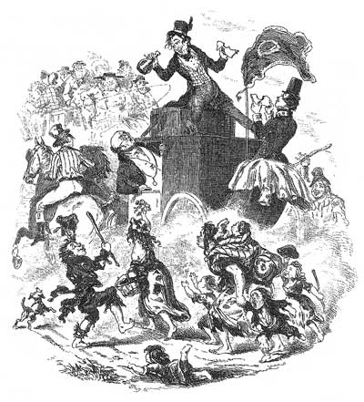 Pickwick Papers, Bob sawyers's mode of travelling